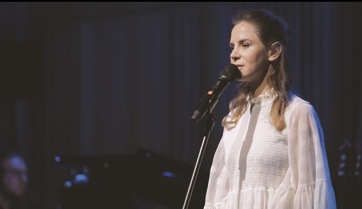 Natalia Lesz, Łódzka Akademia Muzyczna, im.Grażyny i Kiejstuta Bacewiczów diploma.